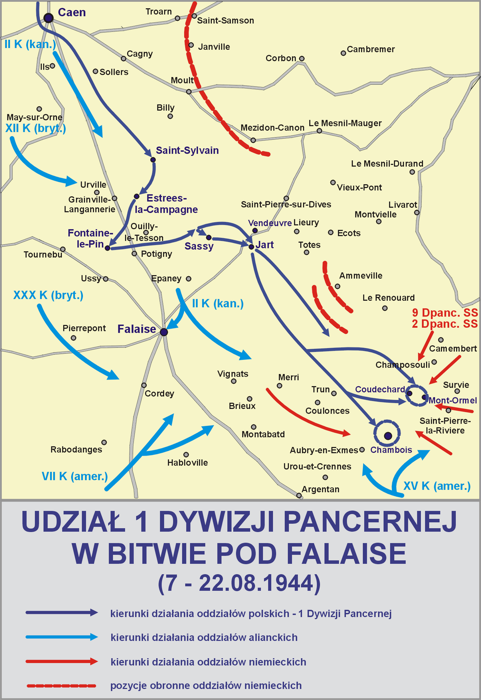 Battle of the Palaise (7-22.08.1944)